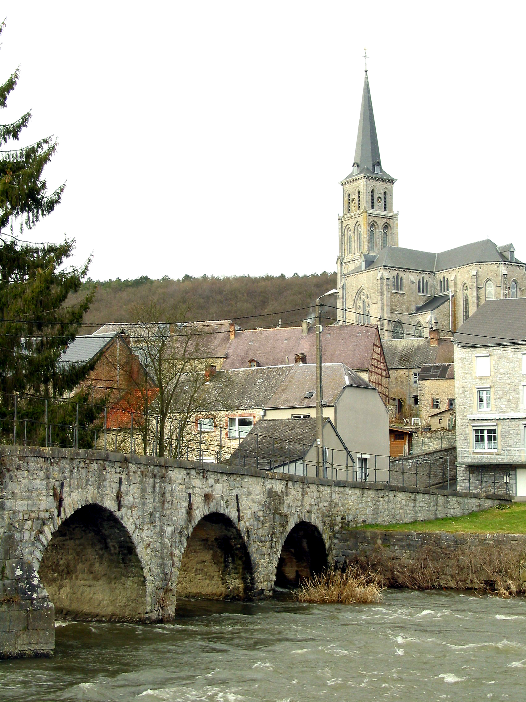 Treignes (Belgium), the old bridge on te Viroin river and the church of the Saints Ruffin and Valère (1871-1872).